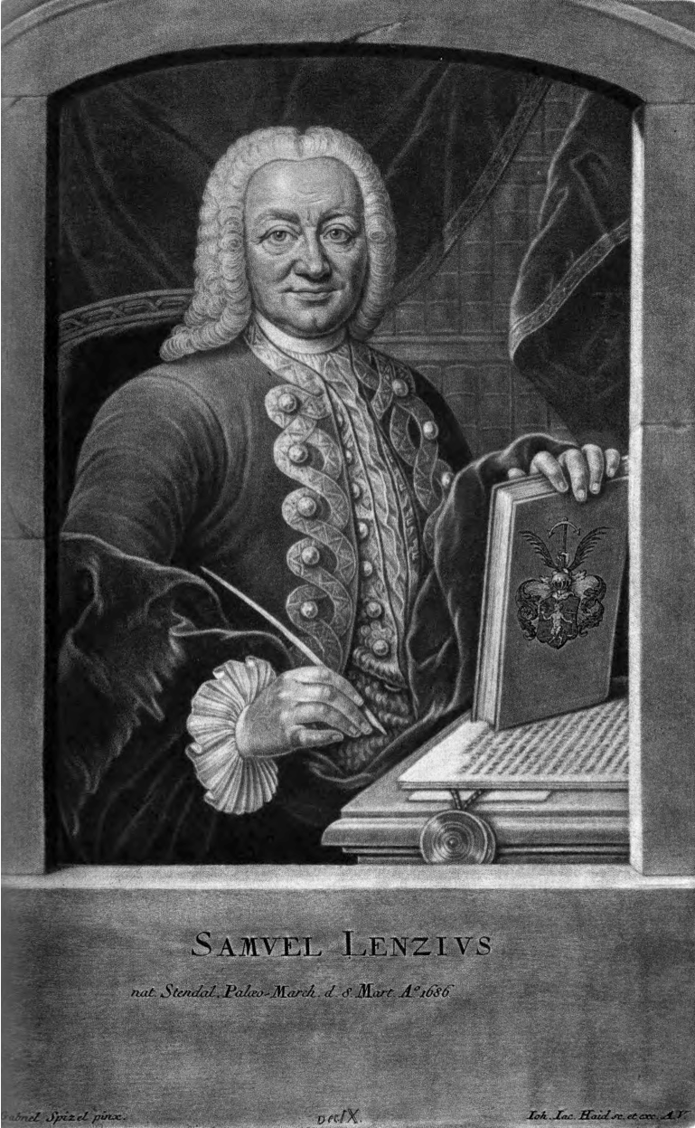 Picture of Samuel Lenz (1686-1764).